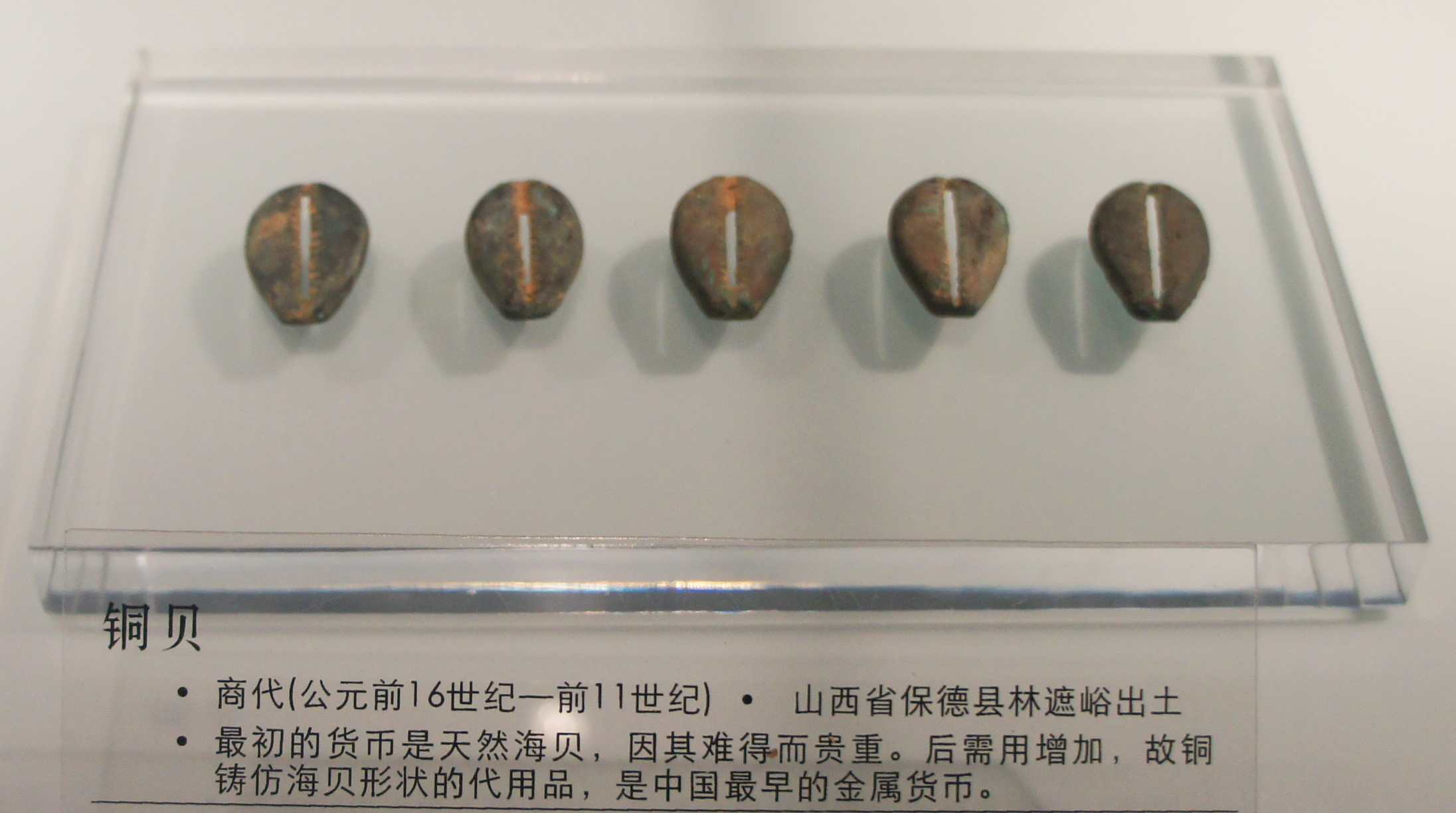 Earliest metal currency, bronze cowries (Monetaria moneta), excavated from Linzheyu site at Baode County, Shanxi, dating from the Shang dyansty (1600 BC-1100 BC). Cowrie shells had been used as currency since Neolithic Period in China.